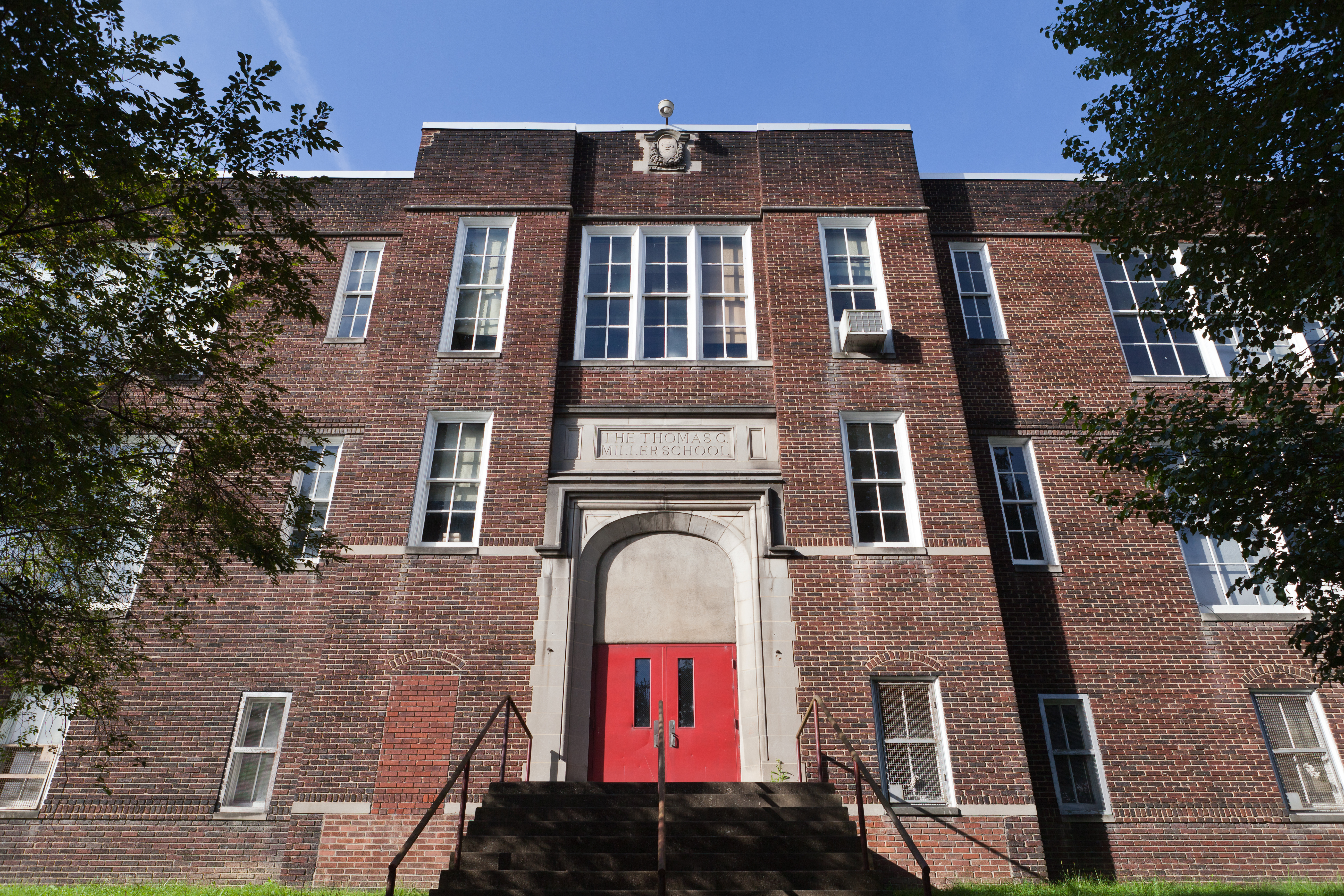 Thomas C. Miller Public School, 2 Pennsylvania Ave. Fairmont West Virginia (front)